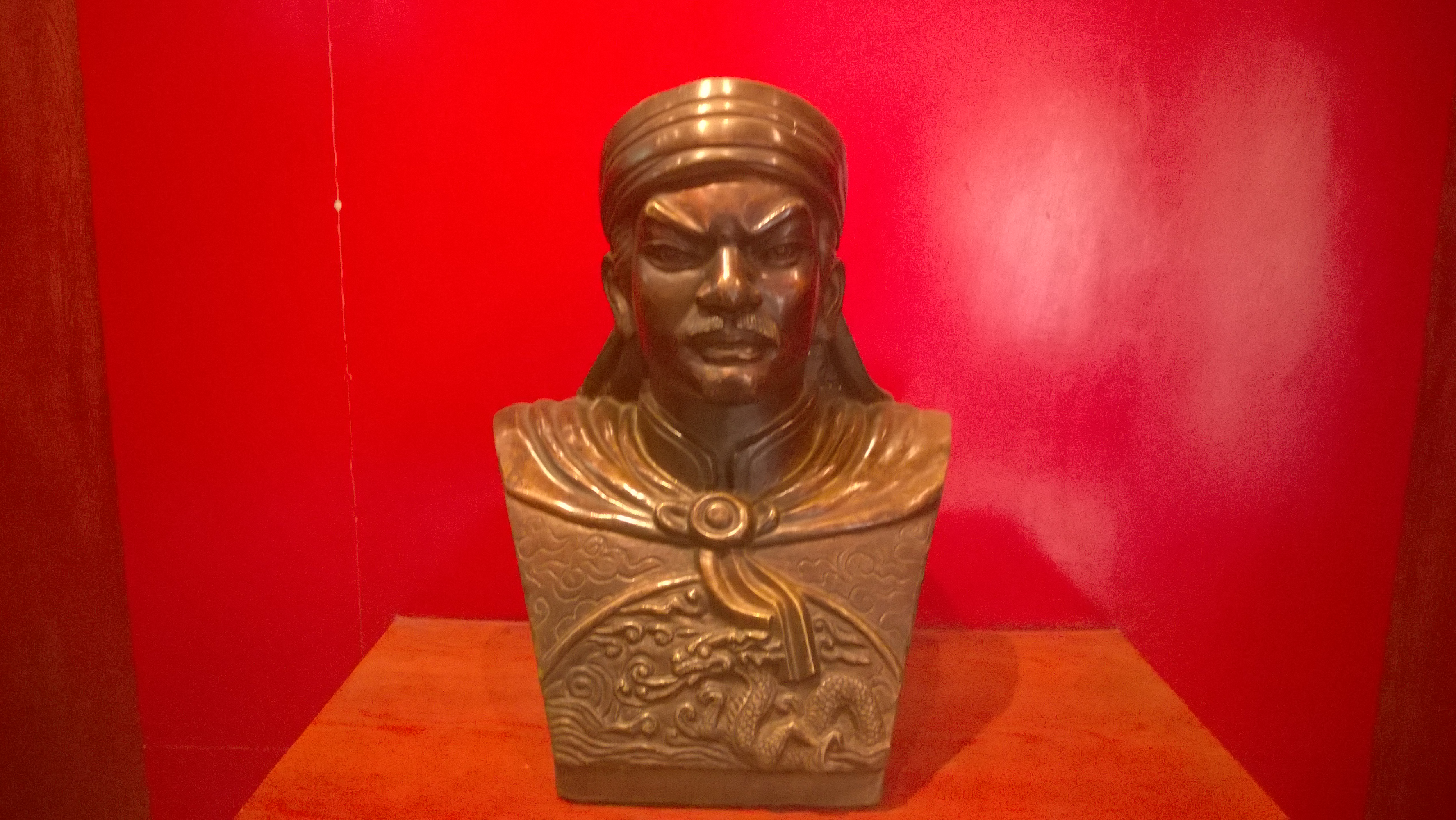 The Vietnam Military History Museum in Hanoi.